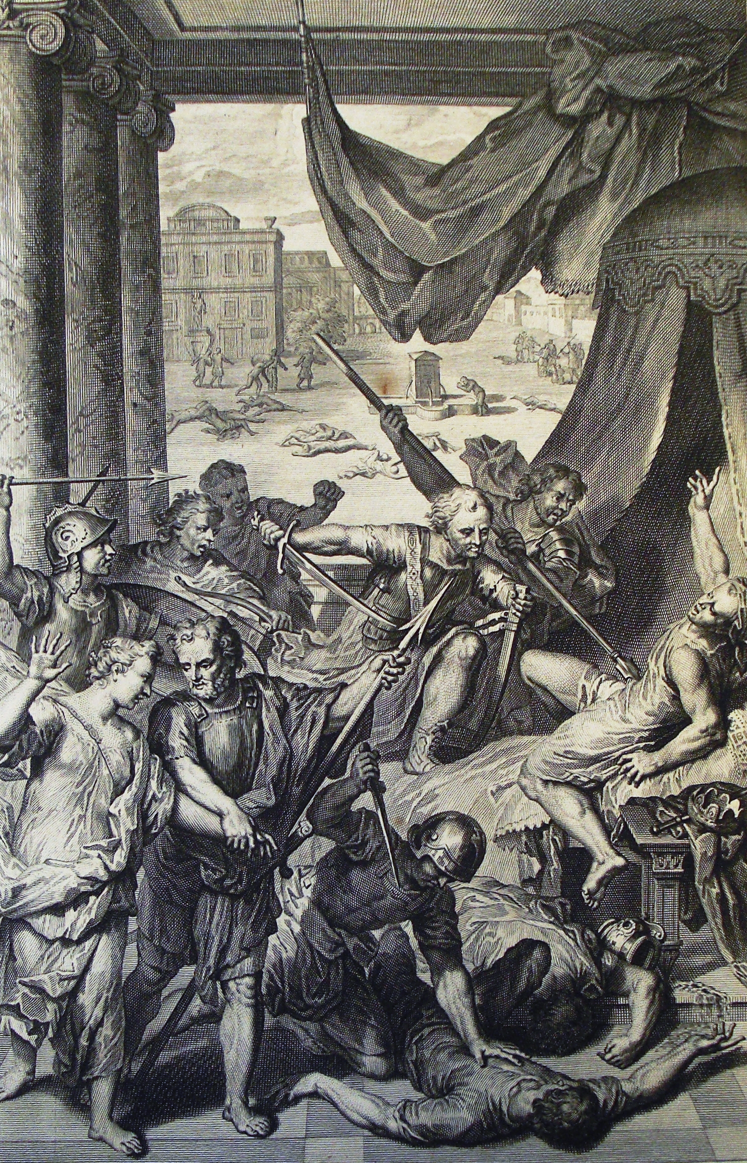 In the collection of Revd. Philip De Vere at St. George’s Court, Kidderminster, England.